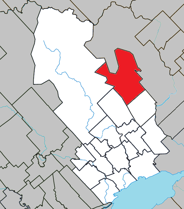 Location of Saint-Mathieu-du-Parc, Quebec within Maskinongé Regional County Municipality.